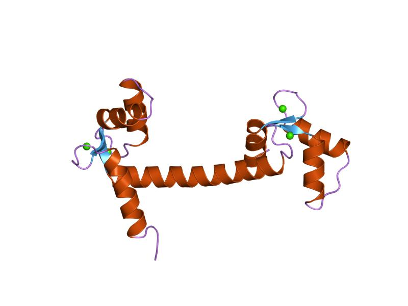 Cartoon representation of the molecular structure of protein registered with 1osa code.